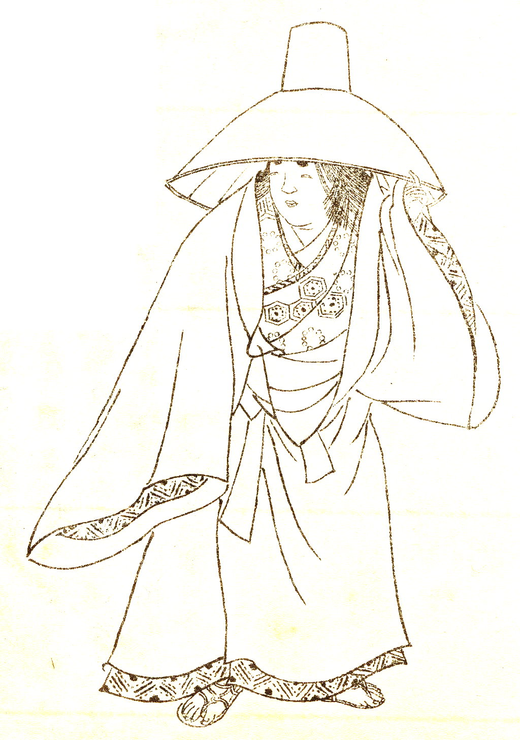 Izumi Shikibu (和泉式部, ?－976?) was a mid Heian period Japanese poet.This picture was drawn by Kikuchi Yosai（菊池容斎） who was a painter in Japan.